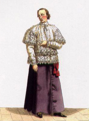 The Prefect of the Papal Ceremonies